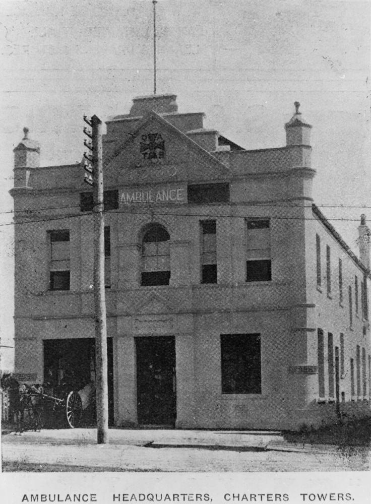 Queensland Ambulance Transport Brigade headquarters in Charters Towers 1905